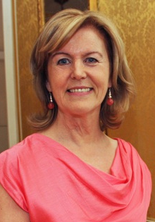 Anne Anderson at the 21 Leaders for the 21st Century gala benefit dinner at JW Marriott Essex House in New York City on 1 May 2013. (Cropped from original.)